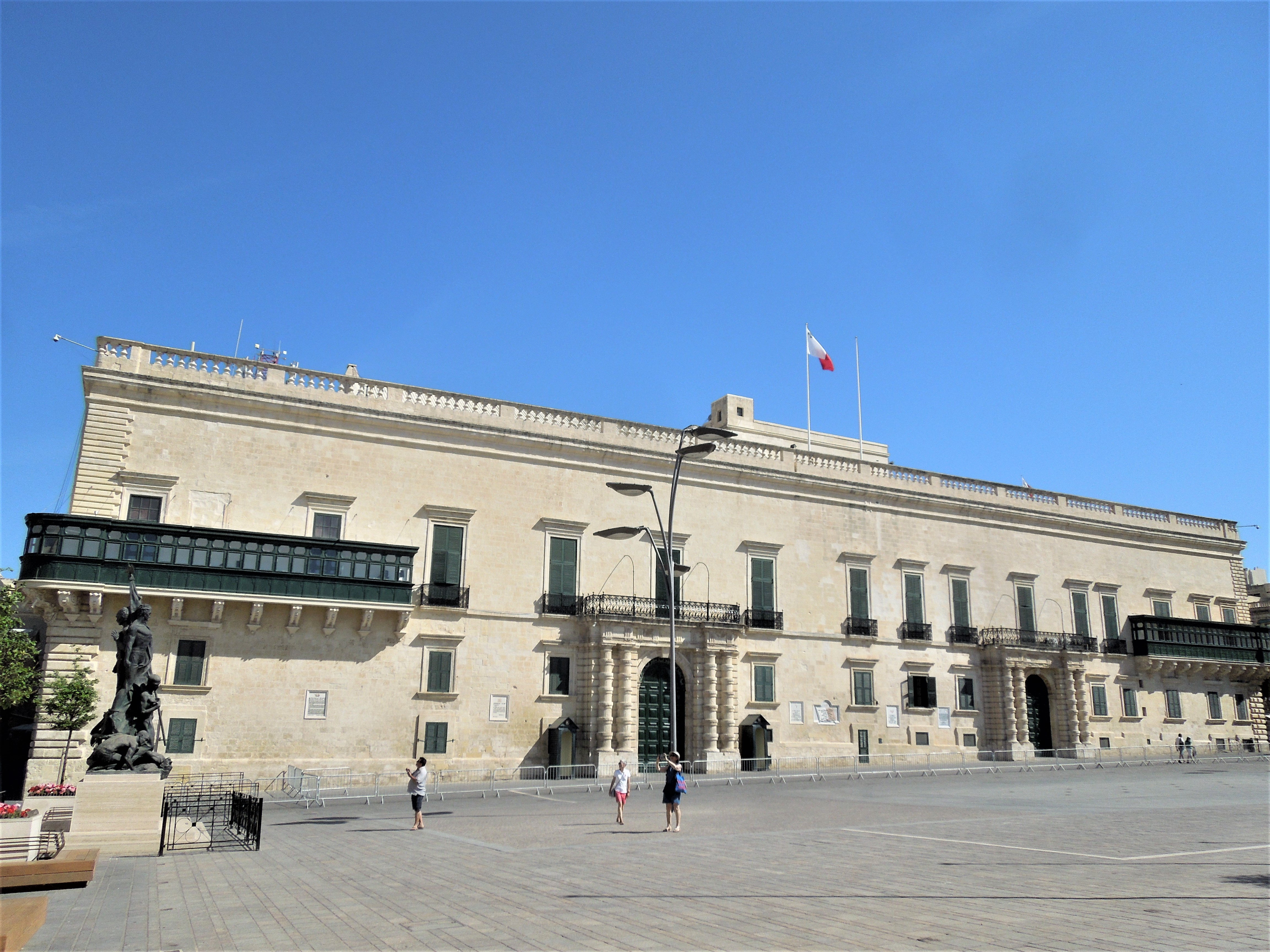 Valletta: Grandmaster's Palace, June 2017